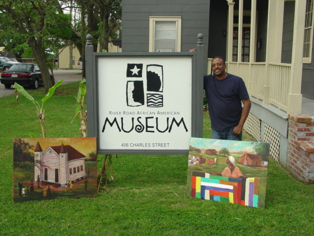 Art of Ted Ellis